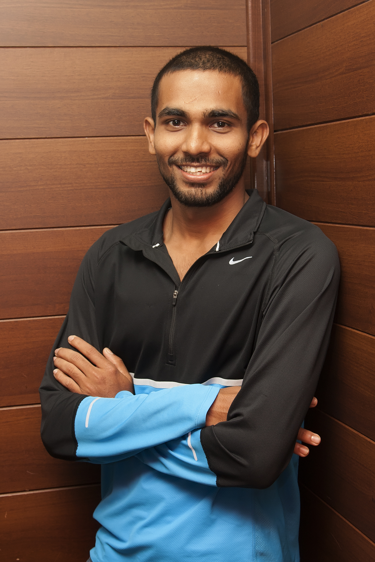 Indian Olympian Irfan Kolothum Thodi.